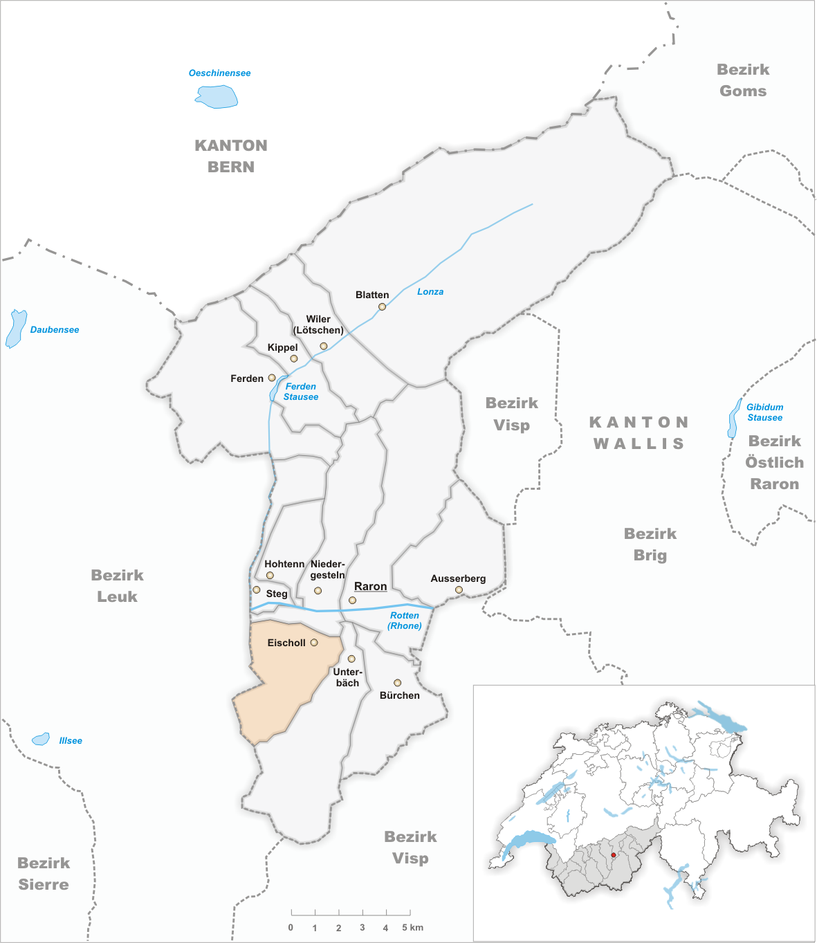 Municipality Eischoll